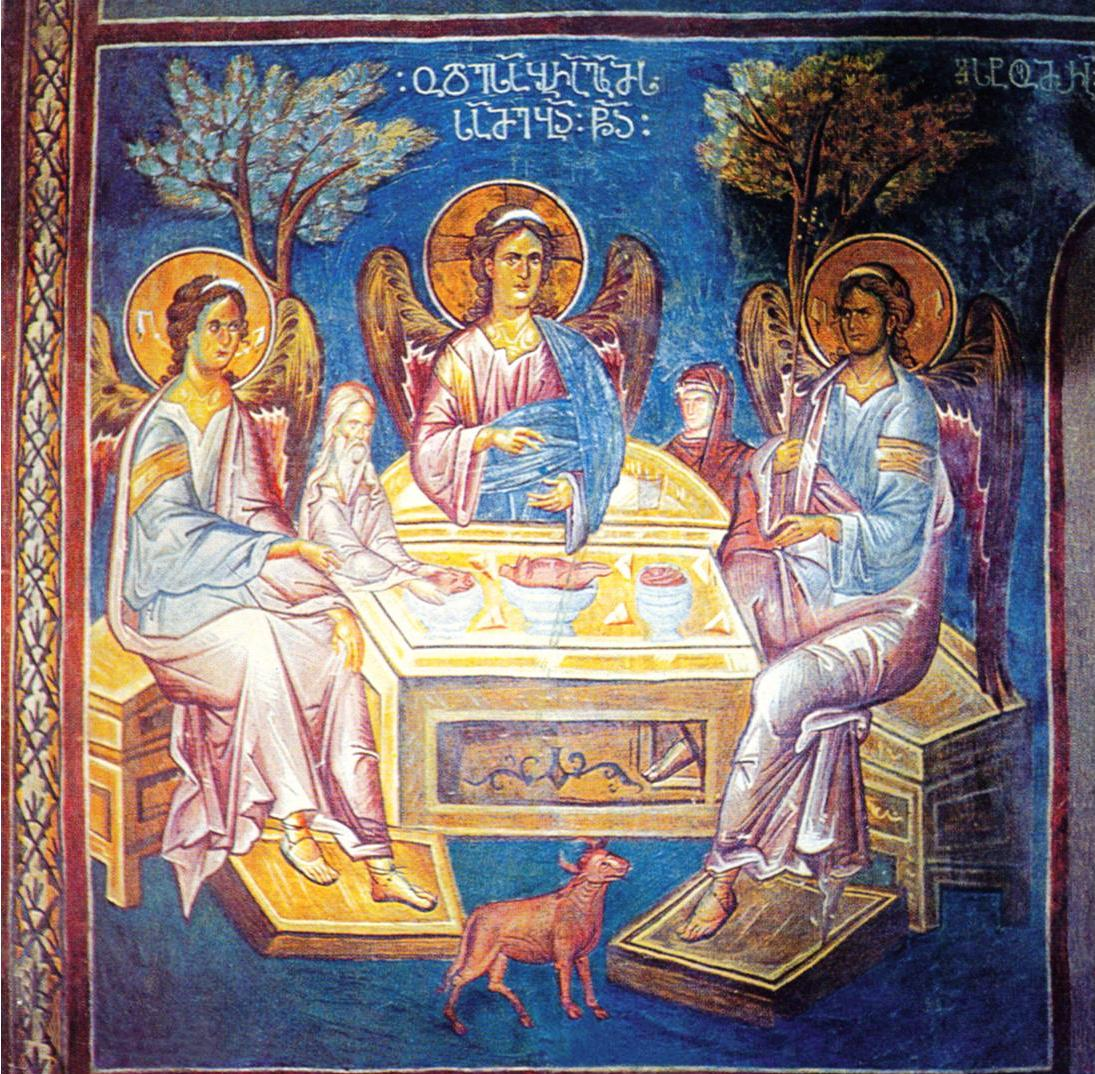 A fresco depicting of the Holy Trinity with a Georgian inscription (asomtavruli) from the Lykhny cathedral: „ოდეს აბრაამს ესტუმრა სამებაი წმიდაი.“.